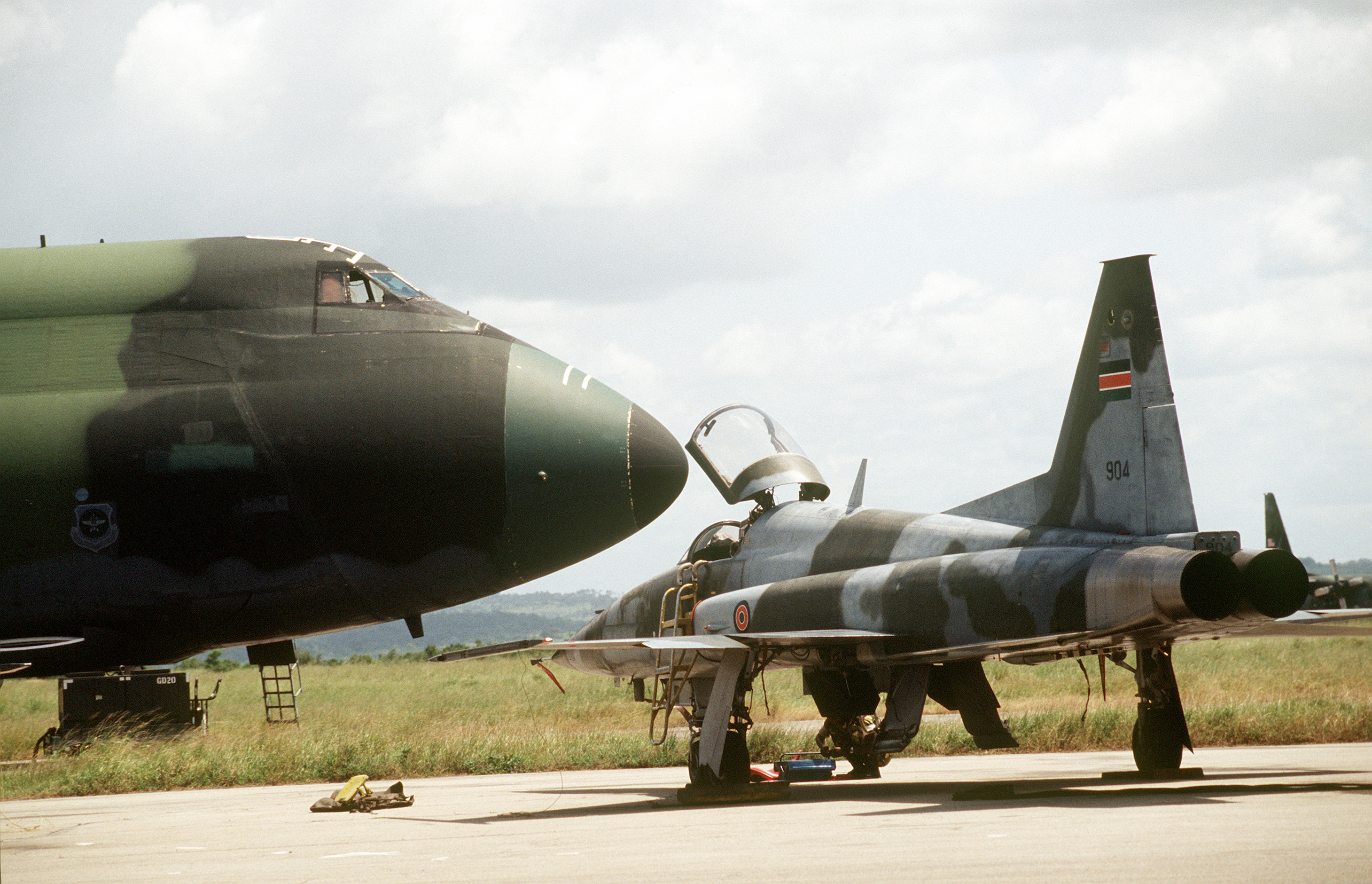 USAF C-5 Galaxy supporting the humanitarian relief effort to Rawanda shares space on the crowded Moi International Airport flight line with a Kenyan Air Force F-5 Freedom Fighter. ID: DF-ST-99-05482